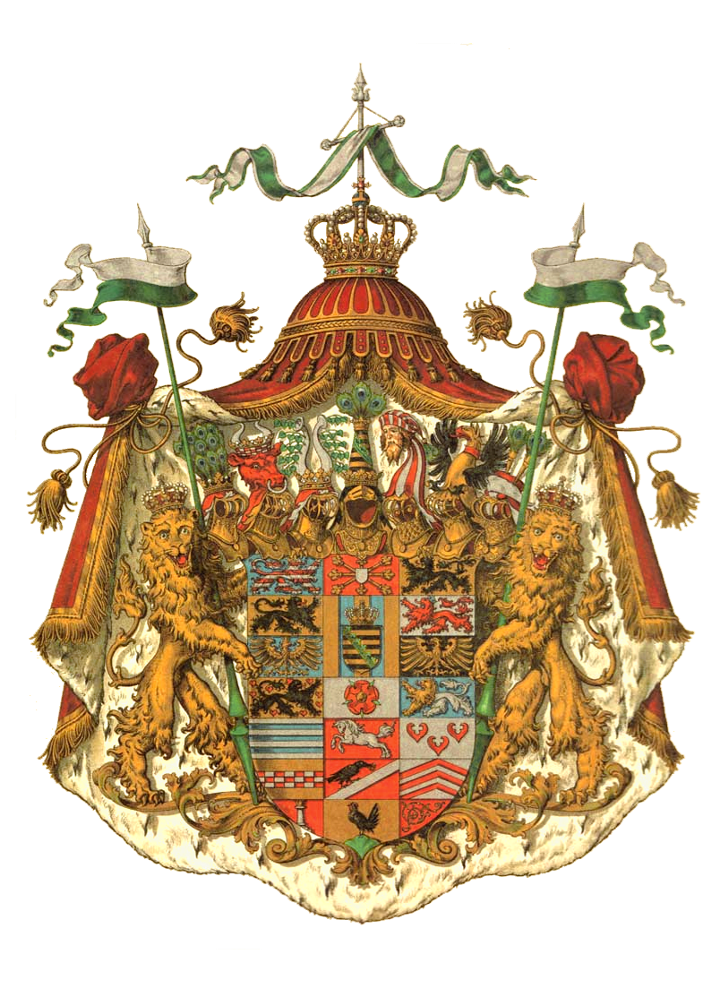 Greater coat of arms of the former Germany duchy of Saxe-Altenburg